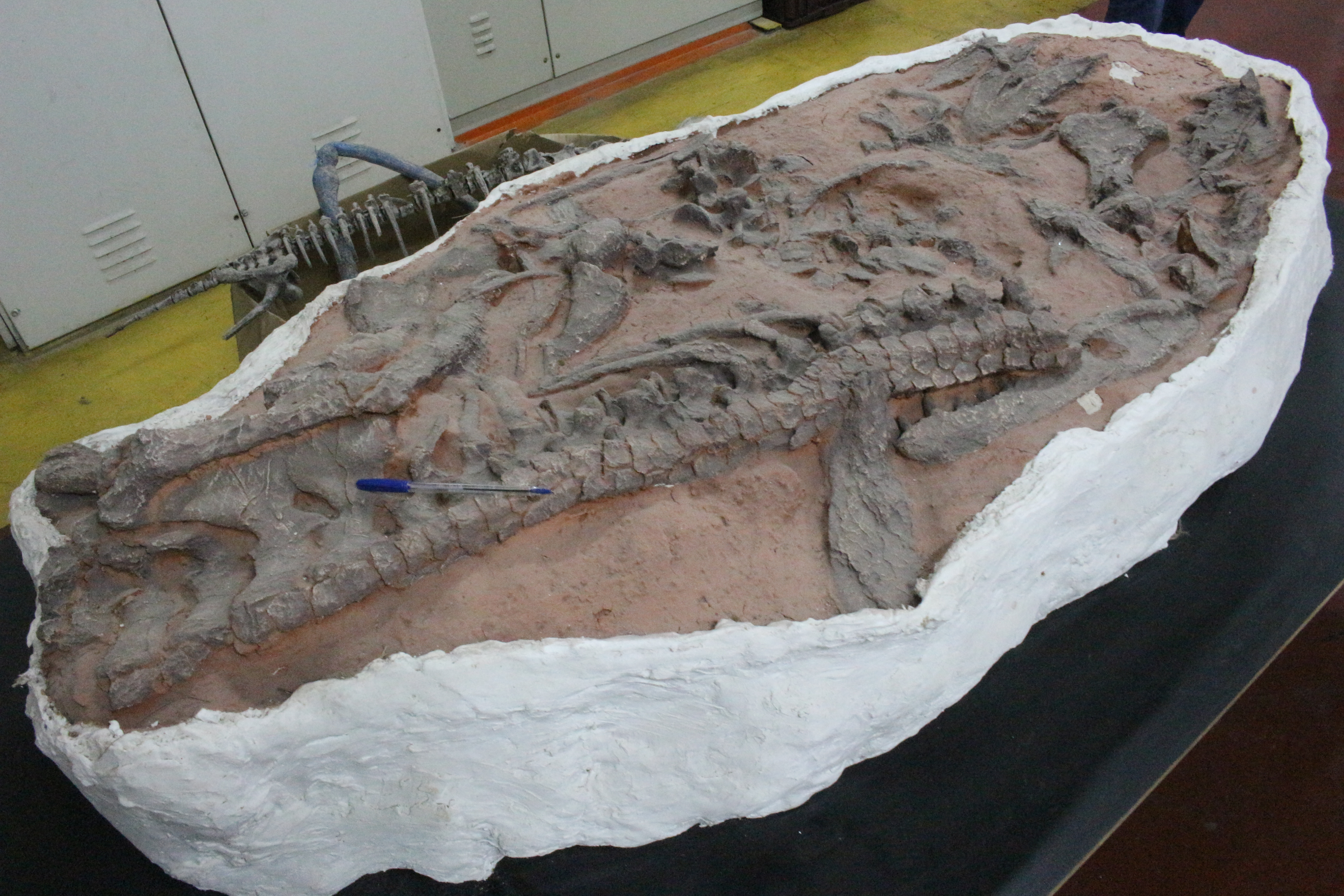 Dinosaur fossil - Museum of Geosciences of the Institute of Geosciences of USP